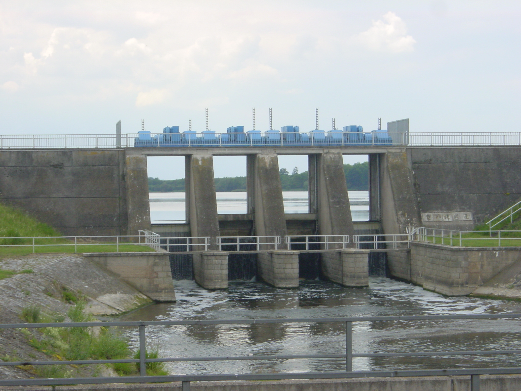 Flood retention basin Straußfurt, Thuringia, Germany